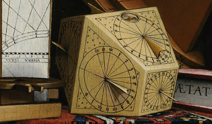 Holbein Ambassadeurs detail cadran polyédrique